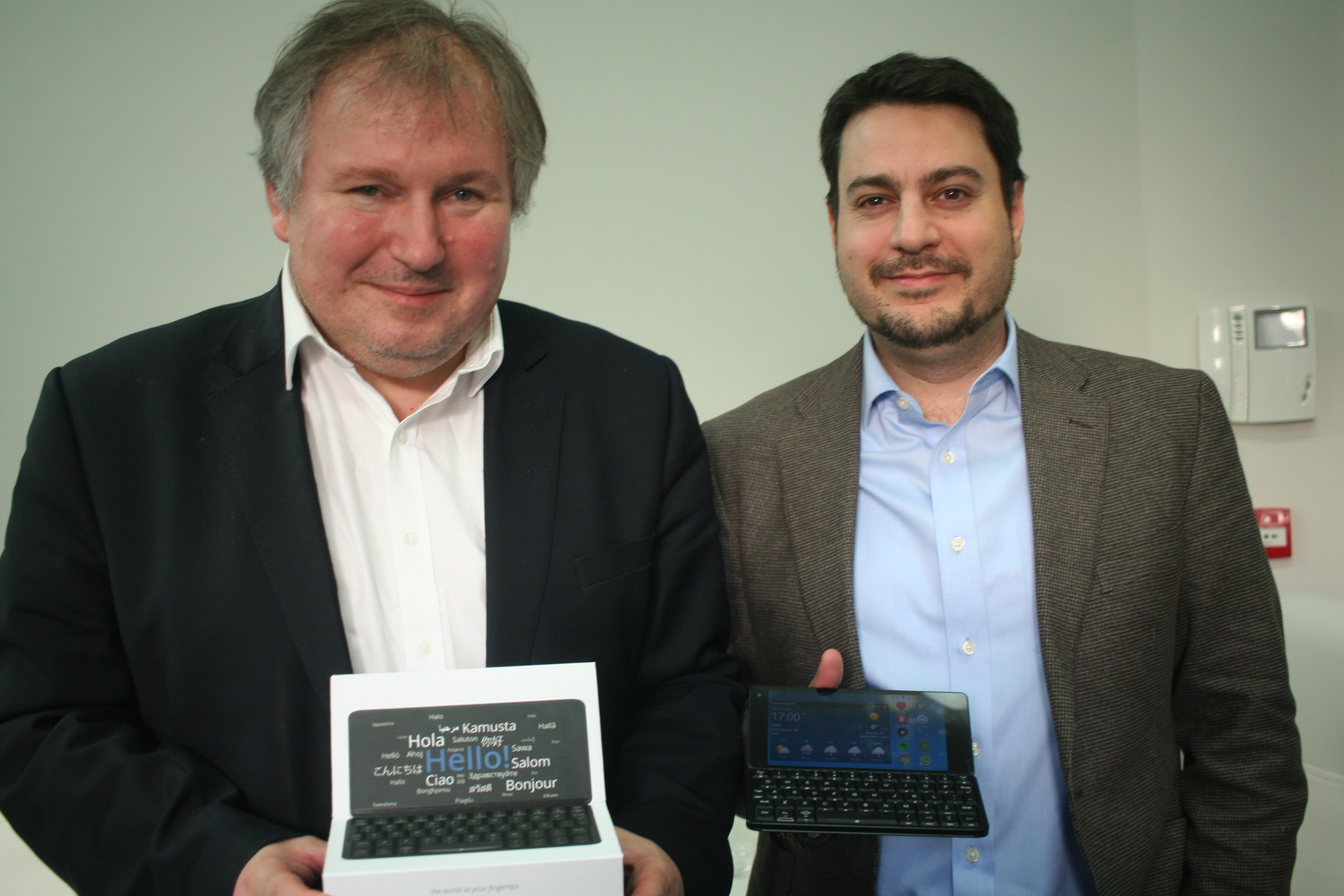 Gemini (PDA) made by in 2018 Planet Computers with a similar physical keyboard to the Psion Series 5. Dr Janko Mrsic-Flogel (CEO, left) and Davidi Guidi (CTO, right) at Planet Computers office in London, with Guidi holding one of the first production run.